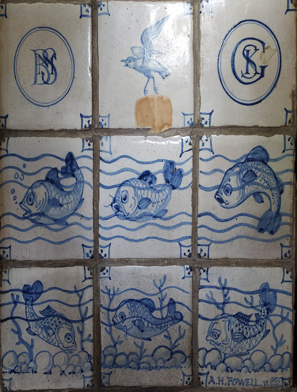 Tiles from a fireplace made for Thomas Jones CH. These tiles show the initials of Molly Bernhard-Smith and Sidney Kyffin Greenslade, with the designer's name Alfred Hoare Powell and the date, October 1924.